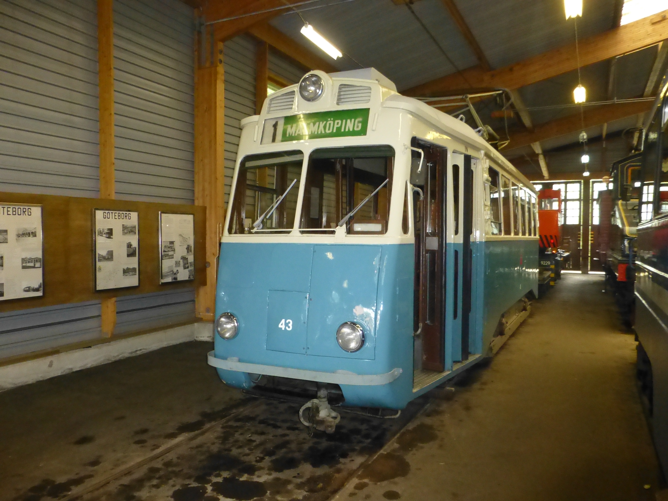 Old tram from Helsingborg HSS F1 43 at Museispårvägen Malmköping in Sweden.